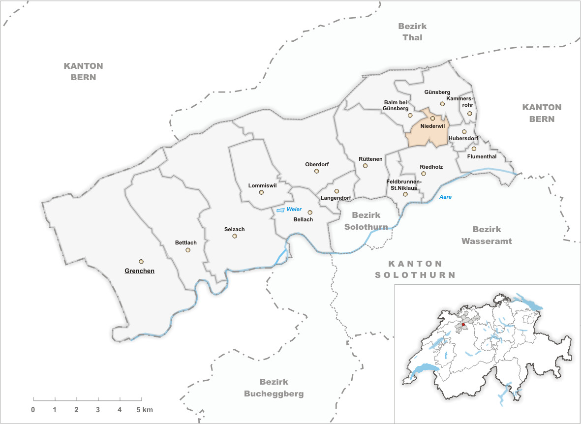 Municipality Niederwil